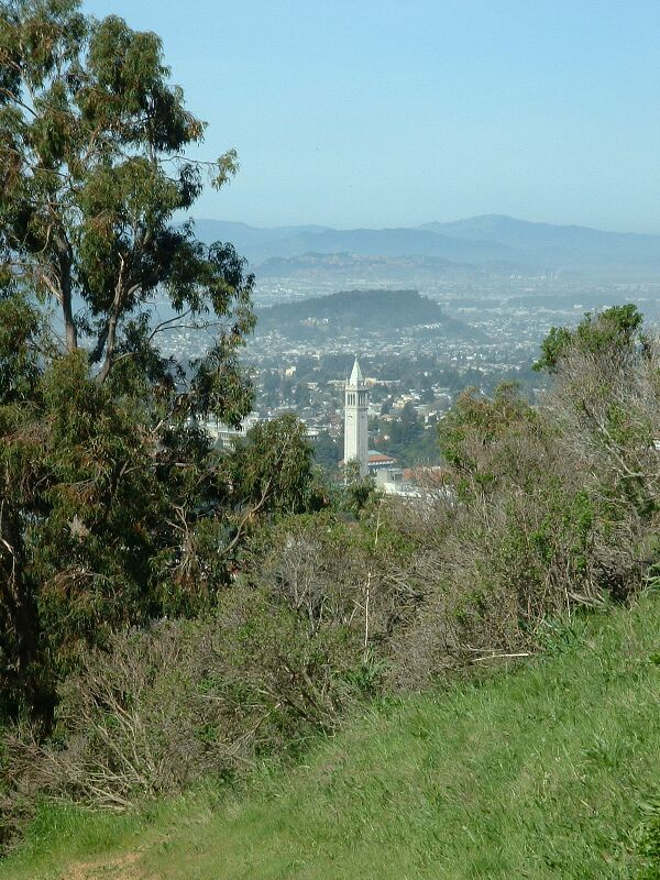 View over the University of California, featuring Sather Tower, then above that Albany Hill, and across the San Francisco Bay to the Marin County Headlands, from Claremont Canyon Regional Preserve.